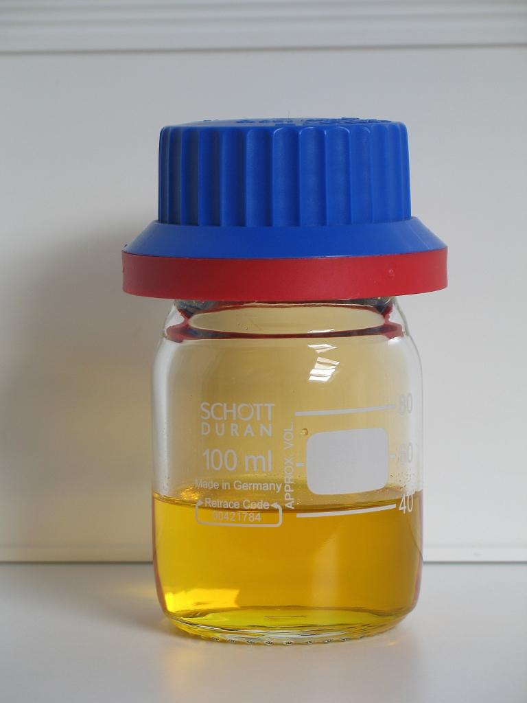 40 milliliters of fuming nitric acid